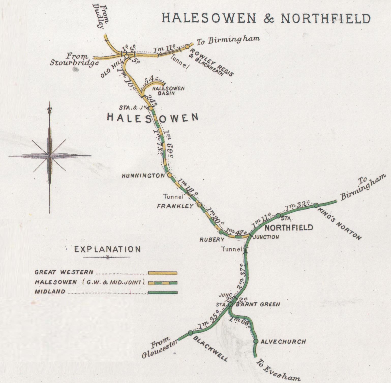 Pre Grouping railway junction: Halesowen & Northfield